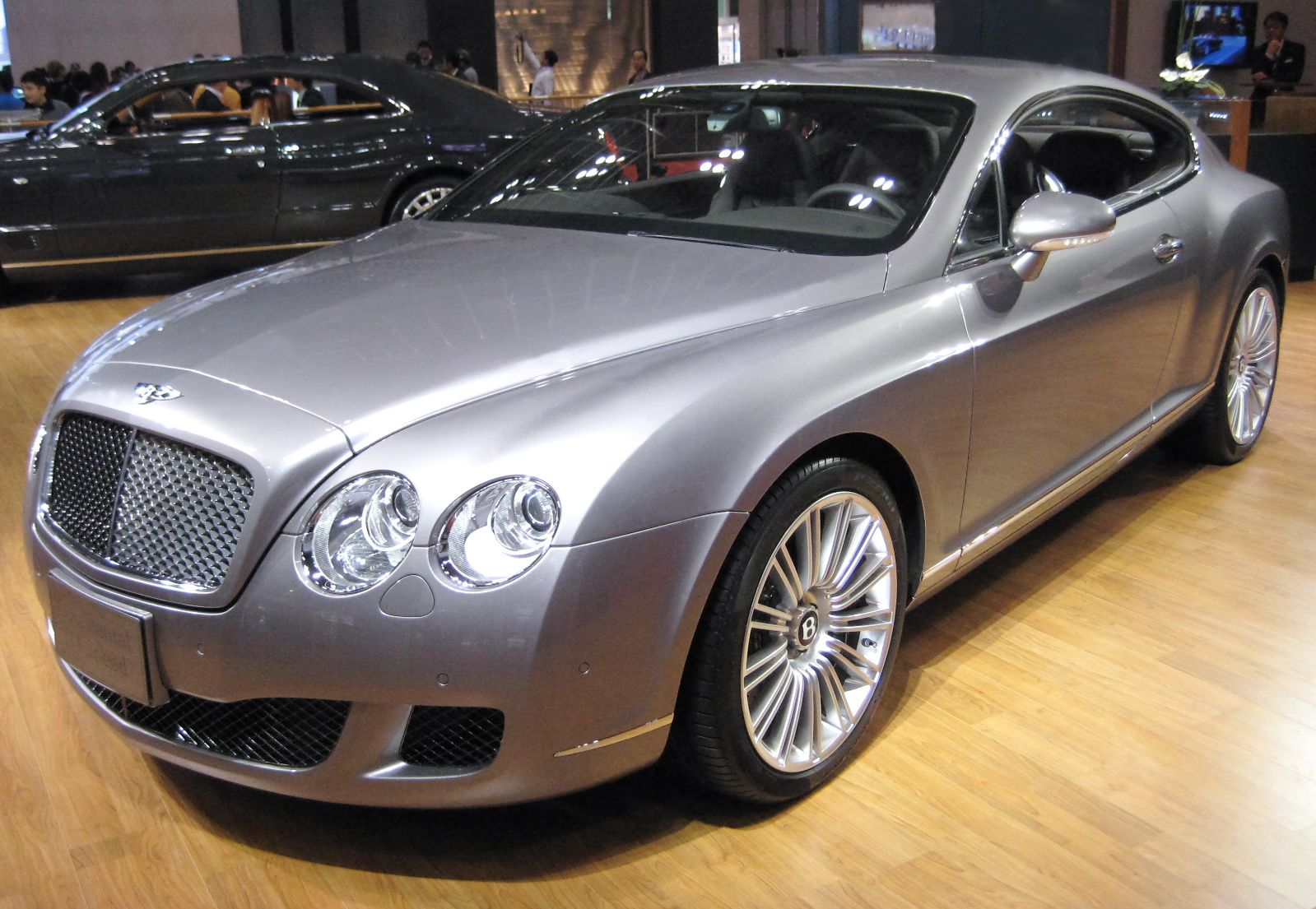 Bentley Continental GT Speed in Tokyo Motor Show 2007